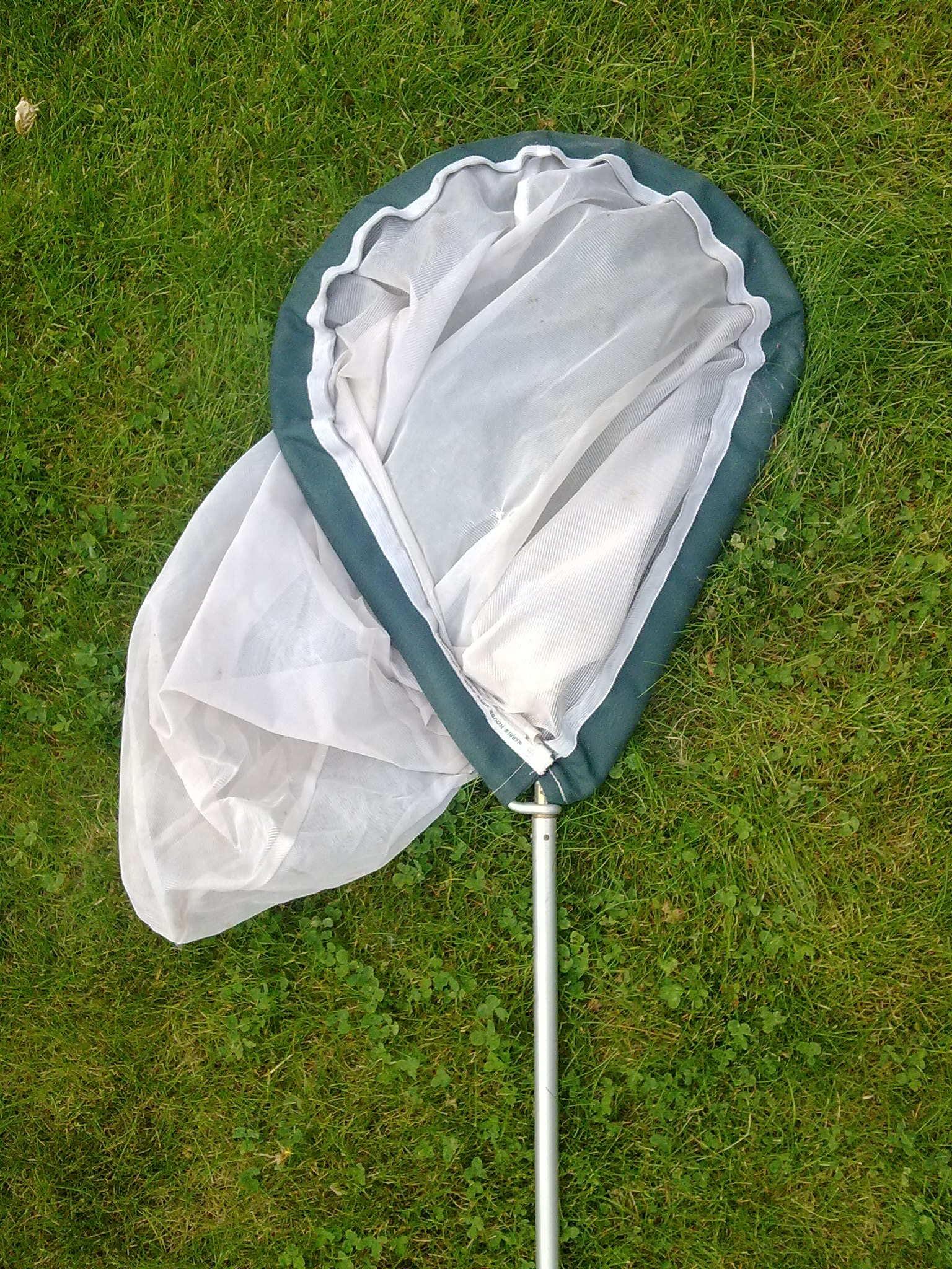 A modern butterfly net. This particular net is known as a kite net due to the kite-shaped frame.